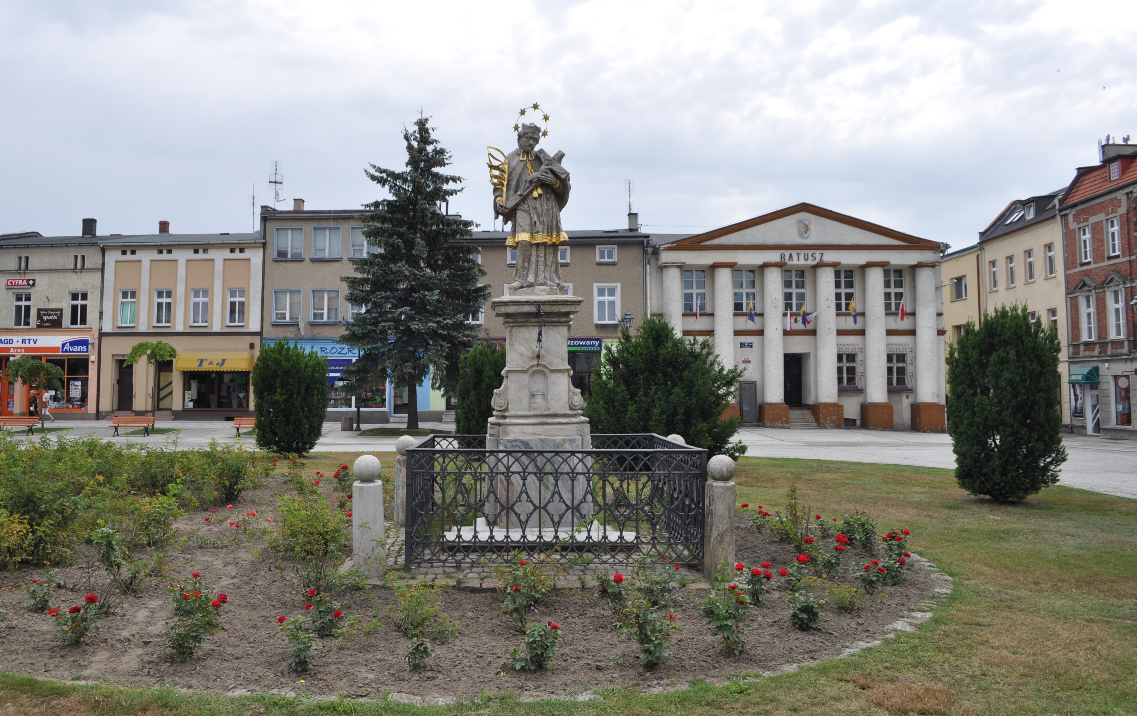 Statue on main square in Olesno